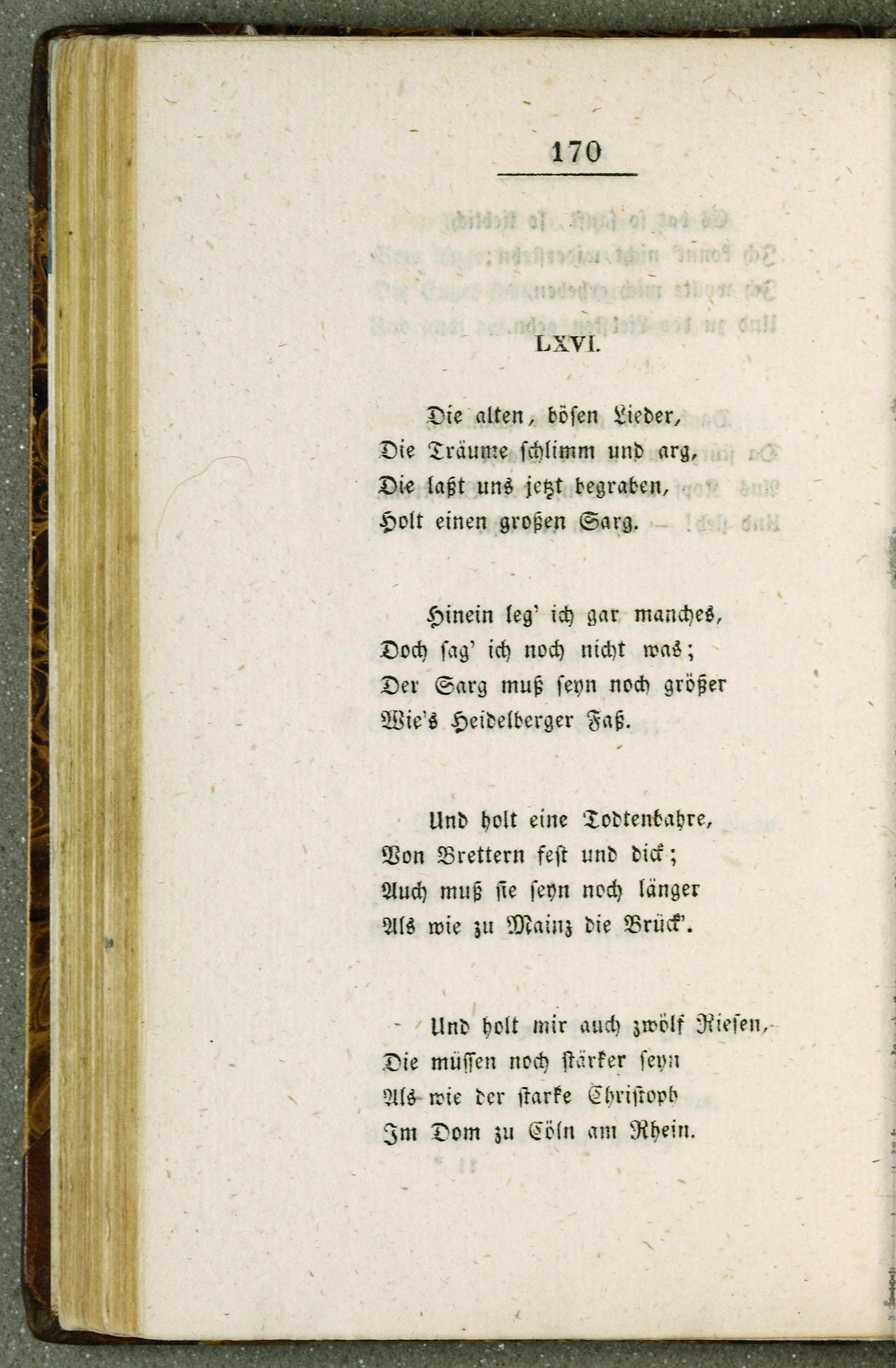 This is a scan of the historical document